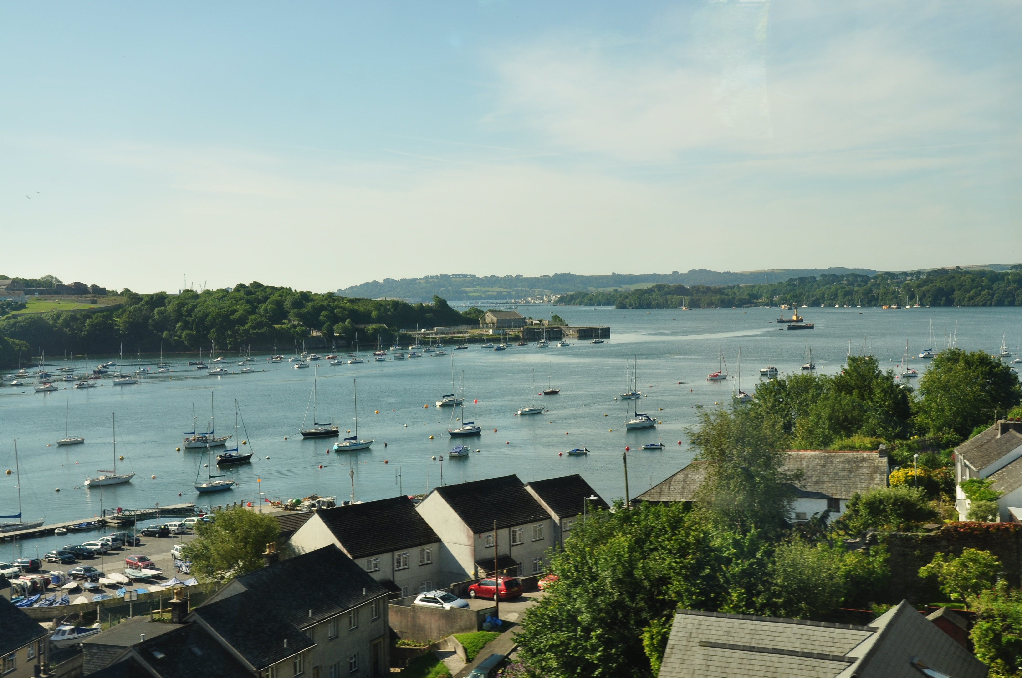 The Hamoaze from Saltash